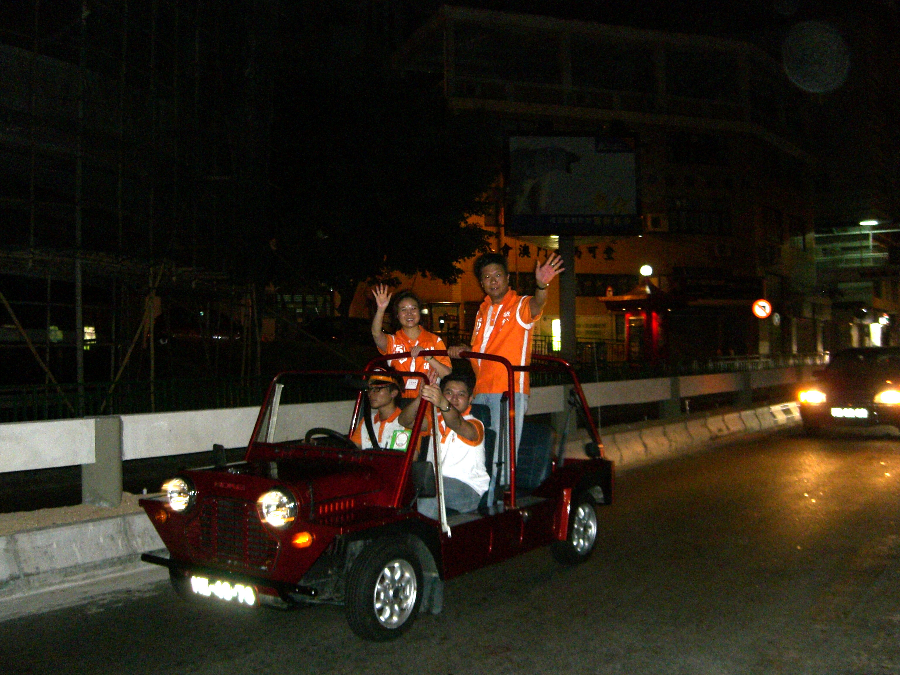 Candidates of "Aliança Pr'a Mudança" at "Rua do Campo" in the start of promotion period of Macanese Legislative Election 2009